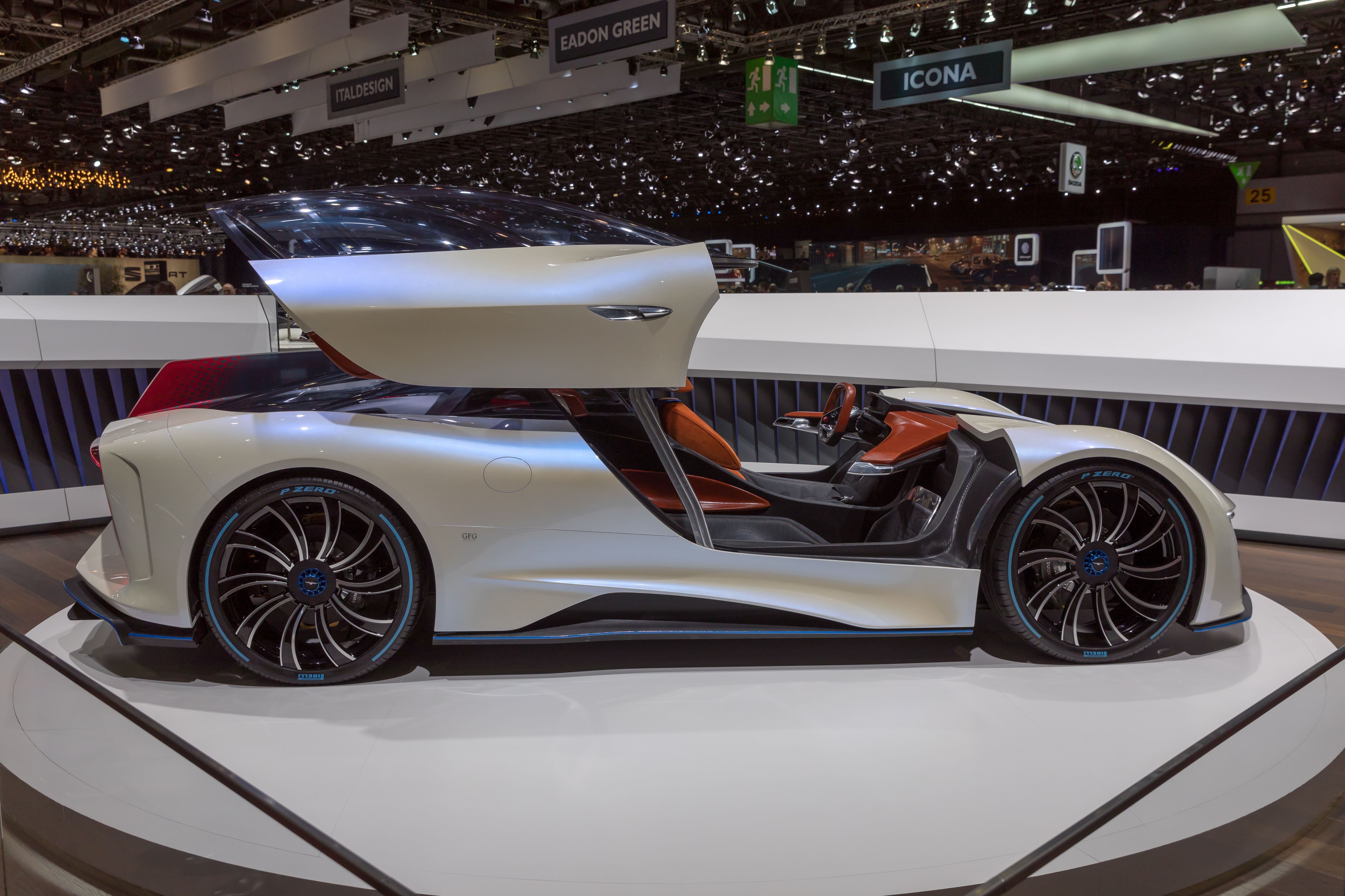 Techrules GT96 TREV at Geneva International Motor Show 2018